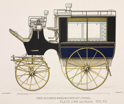 Print. One of a series of designs for various types of horse-drawn transport by J & C Cooper published in the Coachbuilders and Wheelwrights' Art Journal.